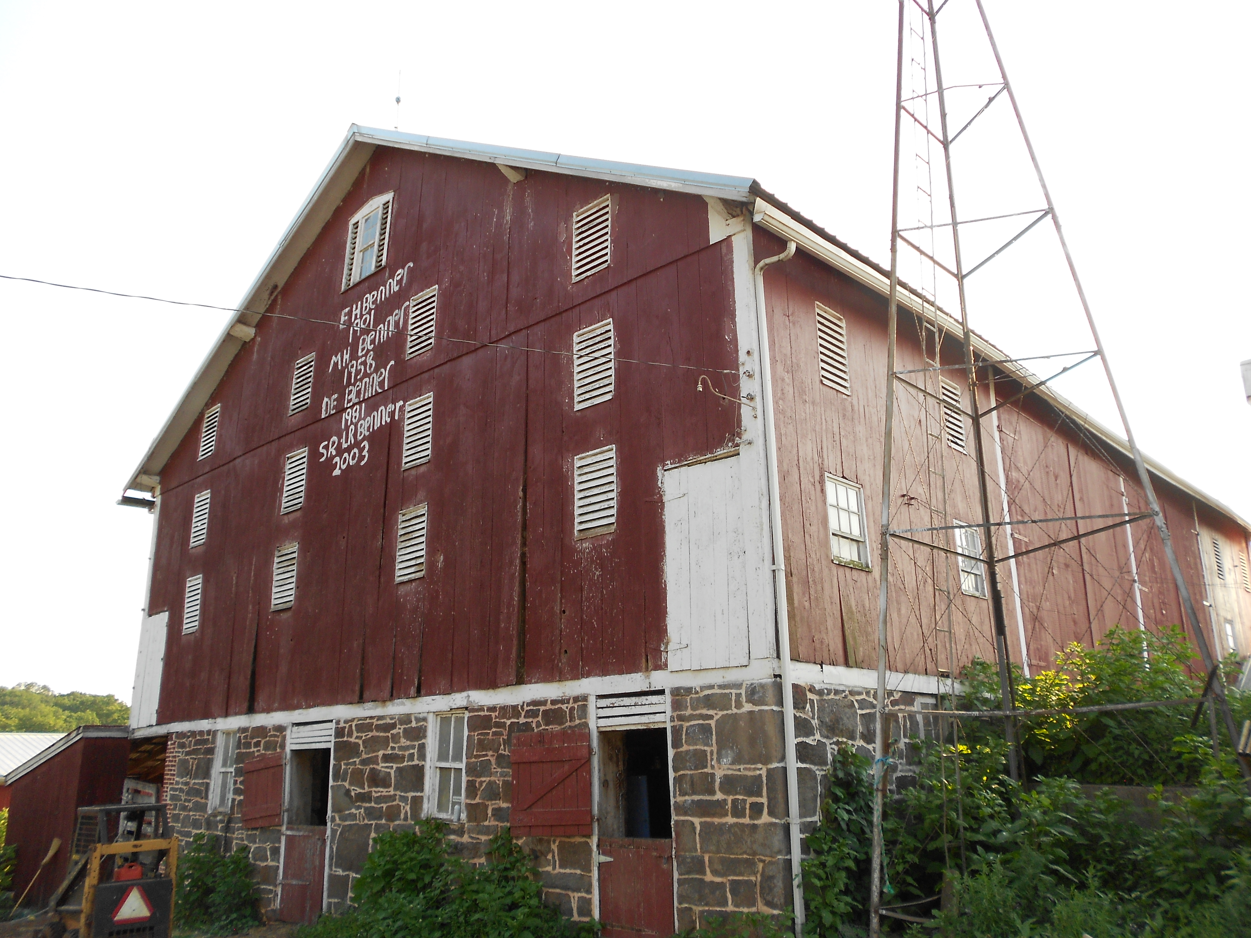 Spangler-Benner farm at 230 Benner Road, near Gettysburg, Mount Joy Township, Adams County, Pennsylvania Area: 145.5 acres (58.9 ha) Built: 1864 19th century farm house Added to NRHP: October 29, 1992